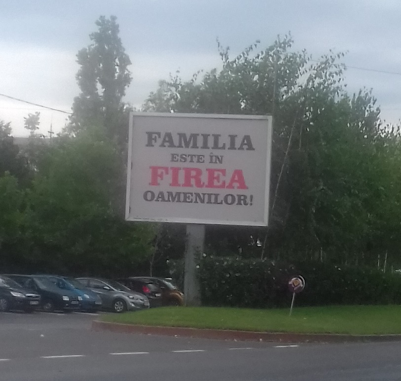 Gabriela Firea 2020 electoral poster in Bucharest